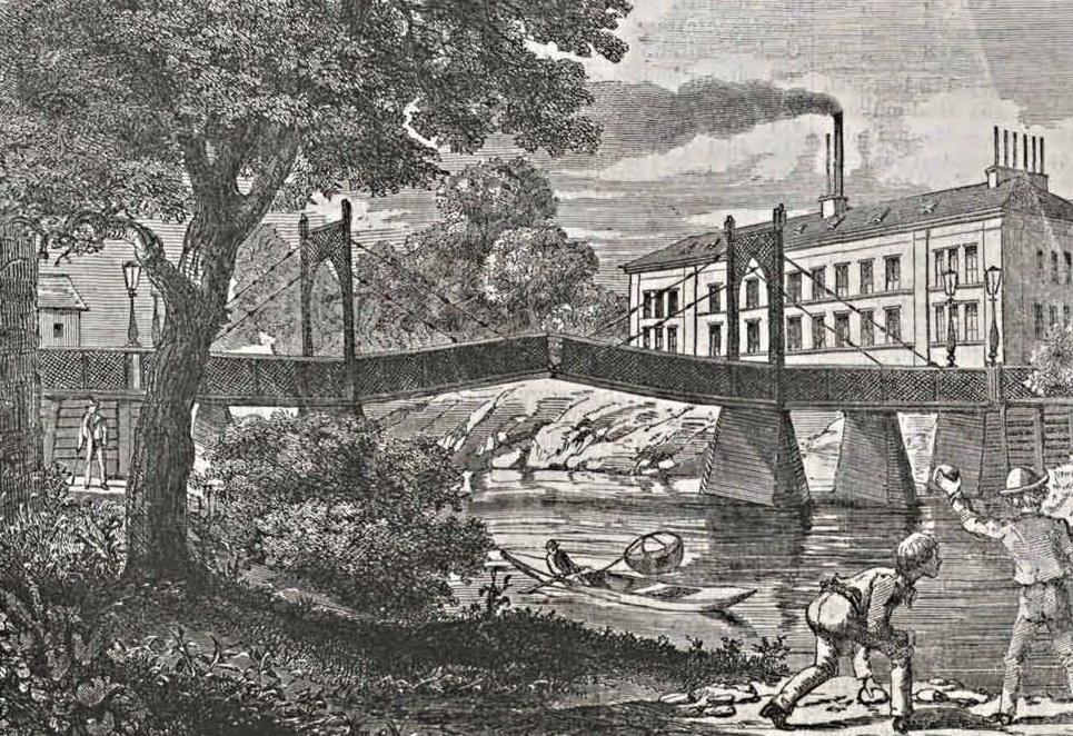 Main entrance bridge of the Óbuda Shipyard; 1866, Hungary